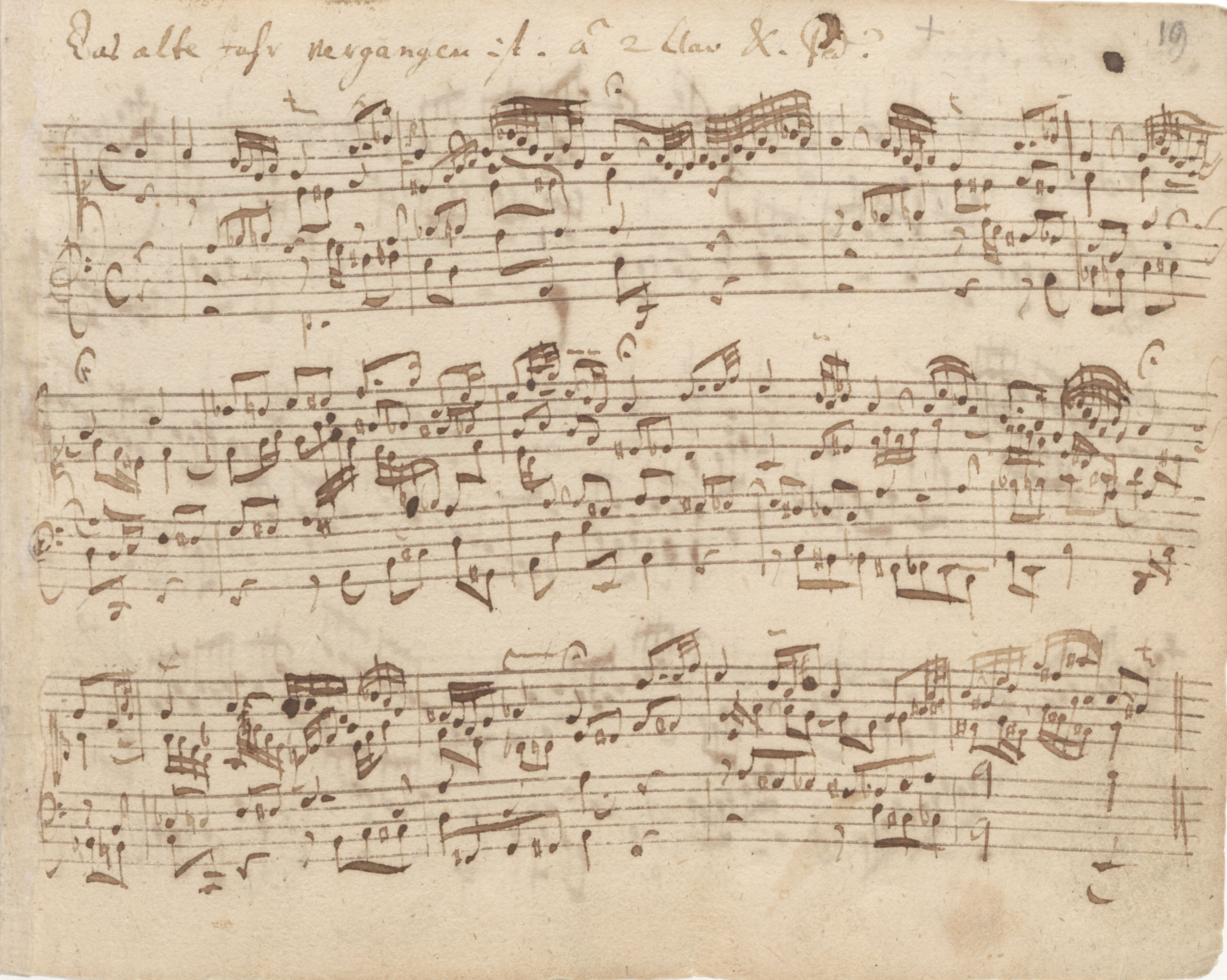 Note: While the article Orgelbüchlein is stll being written do not transfer this file to commons particularly if the detailed in the description, the source and the uploader are omitted when doing the transfer. Autograph manuscript of "Das alte Jahre vergangen ist" from the Orgelbüchlein